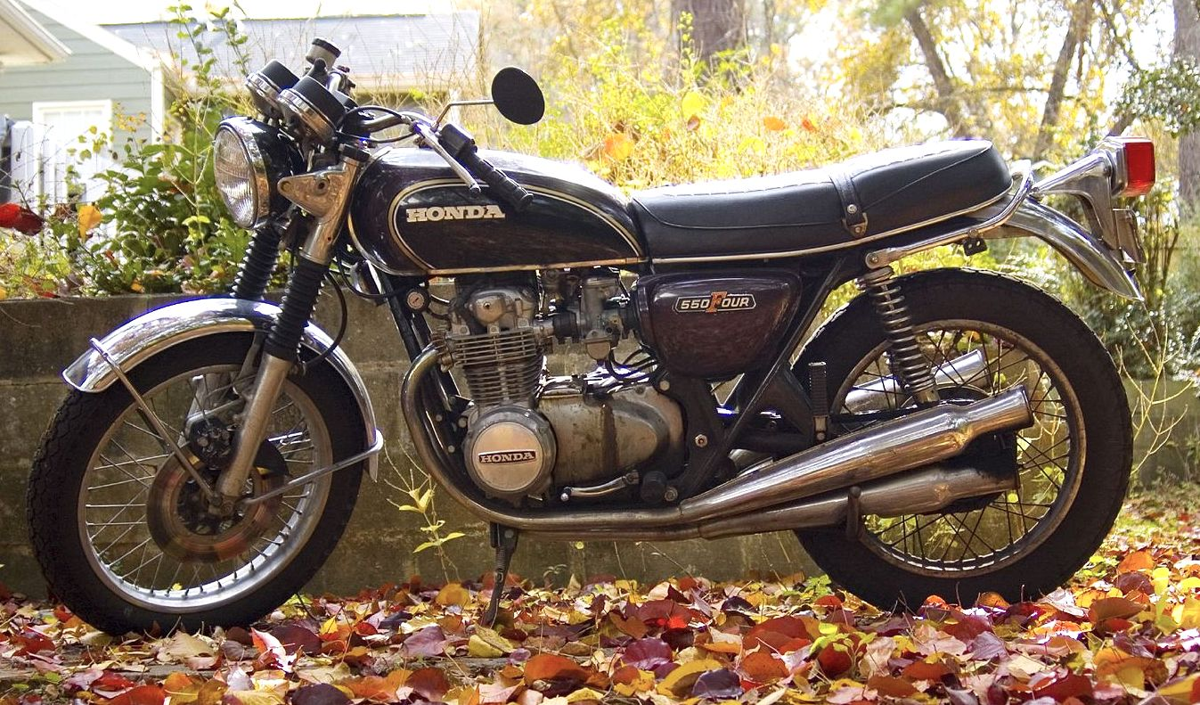 Honda CB500K